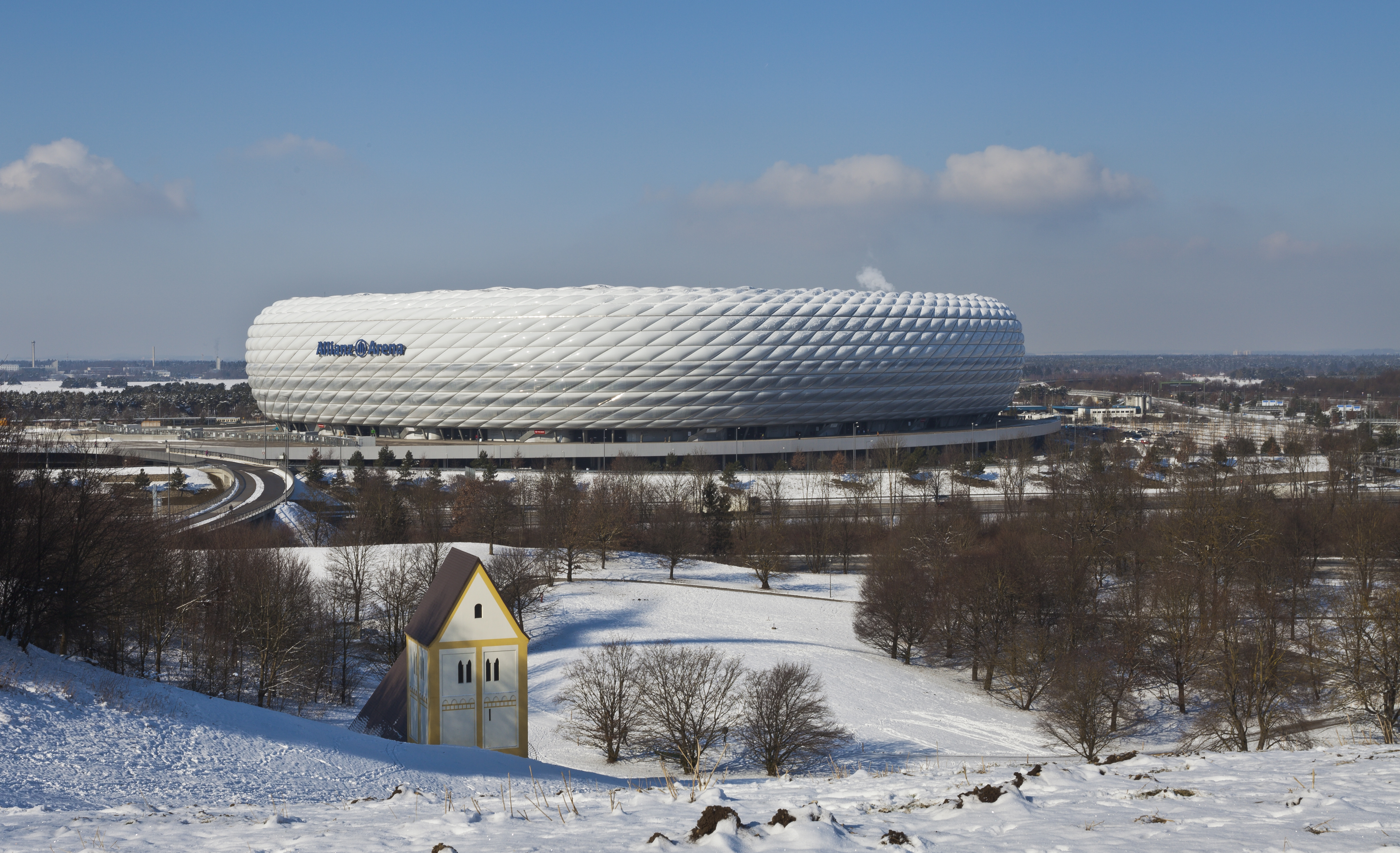 Allianz Arena, Munich, Germany